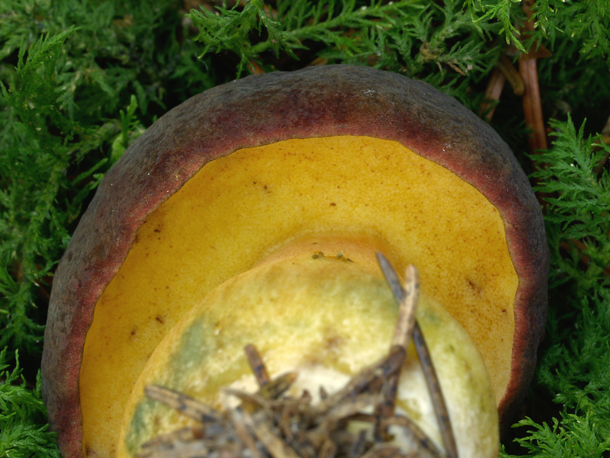 Matt Bolete (Xerocomellus pruinatus)